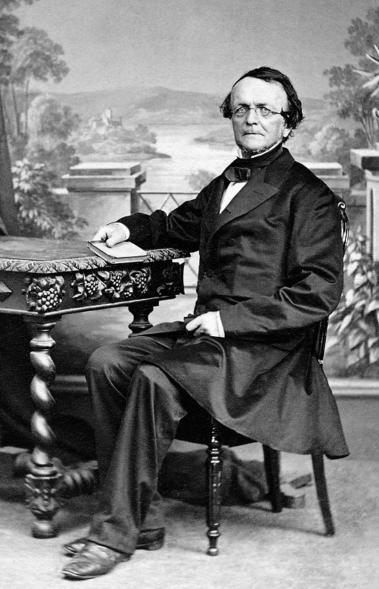 Johann Rudolf Schneider, unknown photographer, original photo from the State Archive of the Canton of Bern.